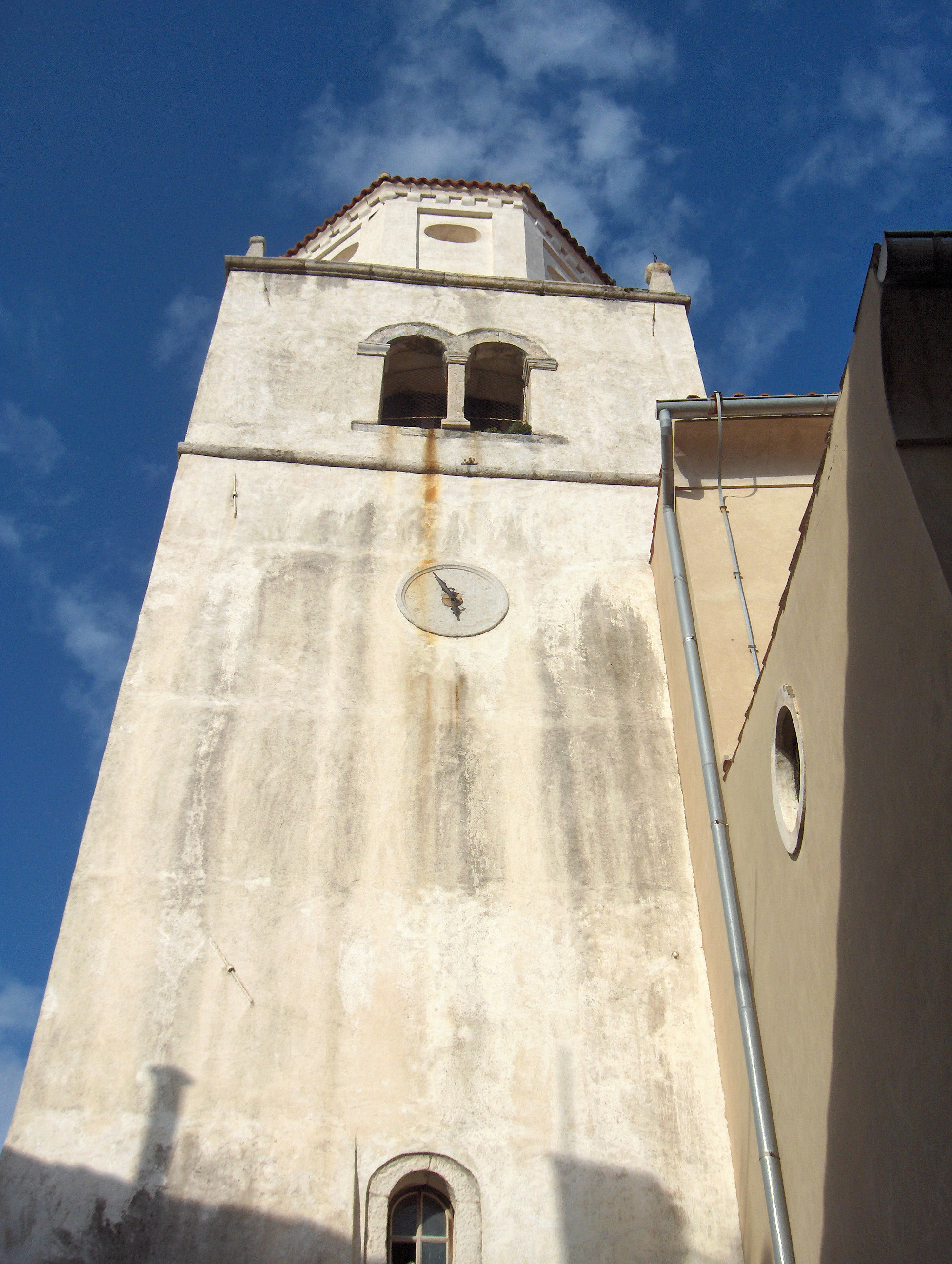 Romanesque-Longobardic church tower (1200-1300), St. Andrew's church; Mošćenice, Croatia